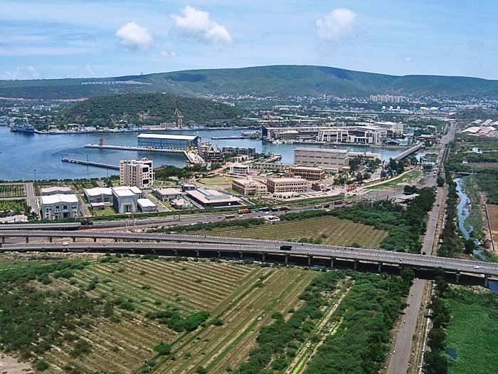 Seaport